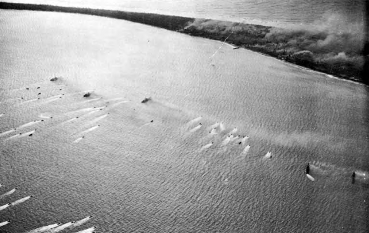 Landing craft pass supporting warships in the Battle of Eniwetok, 19 February 1944.